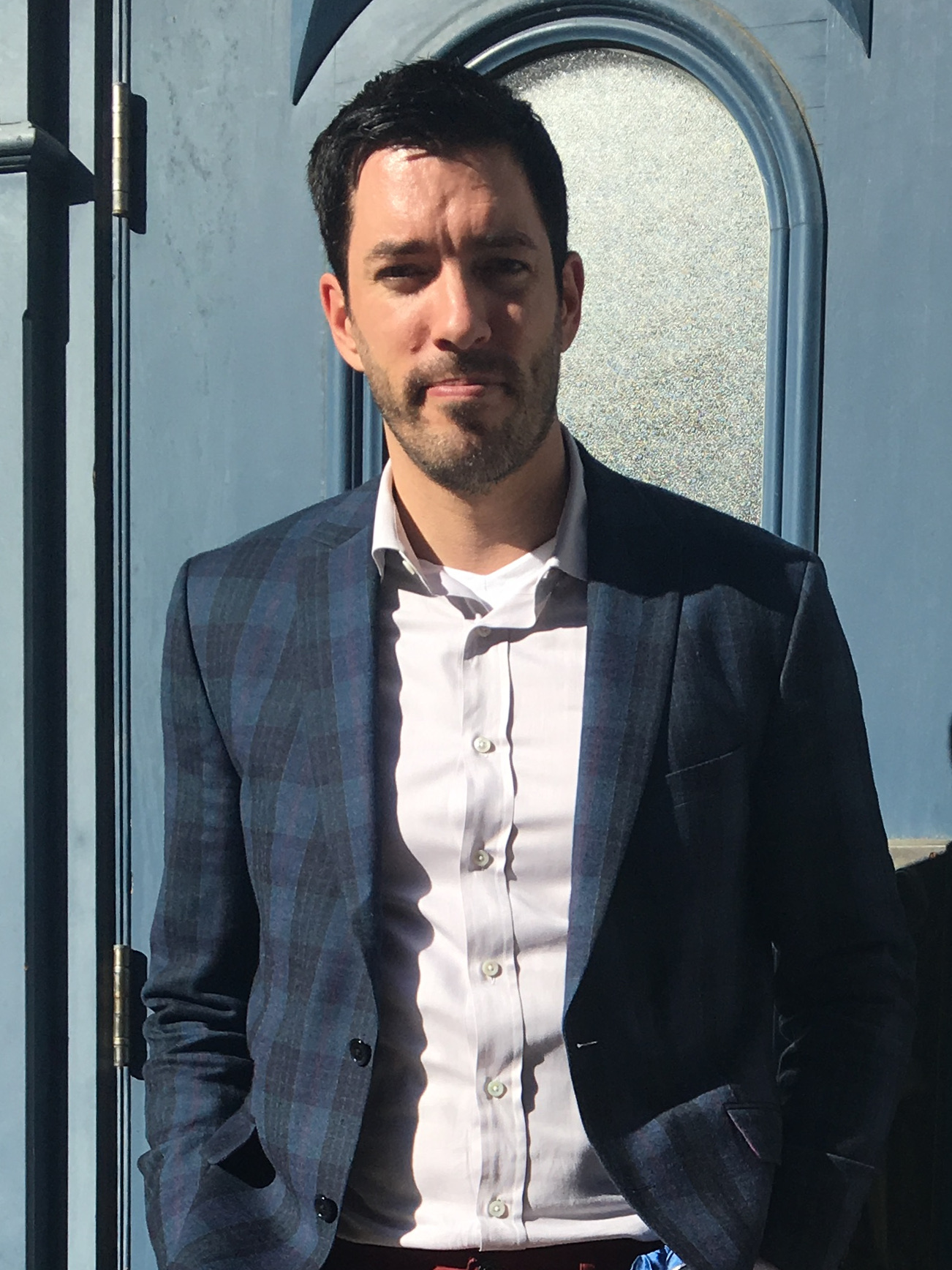 Drew Scott of Property Brothers filming in Quebec City.